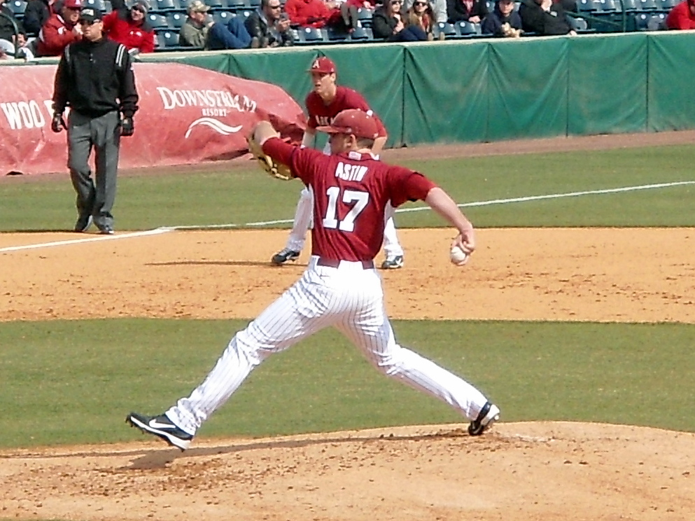 Barrett Astin pitches for the Arkansas Razorbacks baseball team vs the Evansville Purple Aces in Baum Stadium, Fayetteville, Arkansas